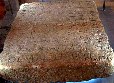 Table of Humac